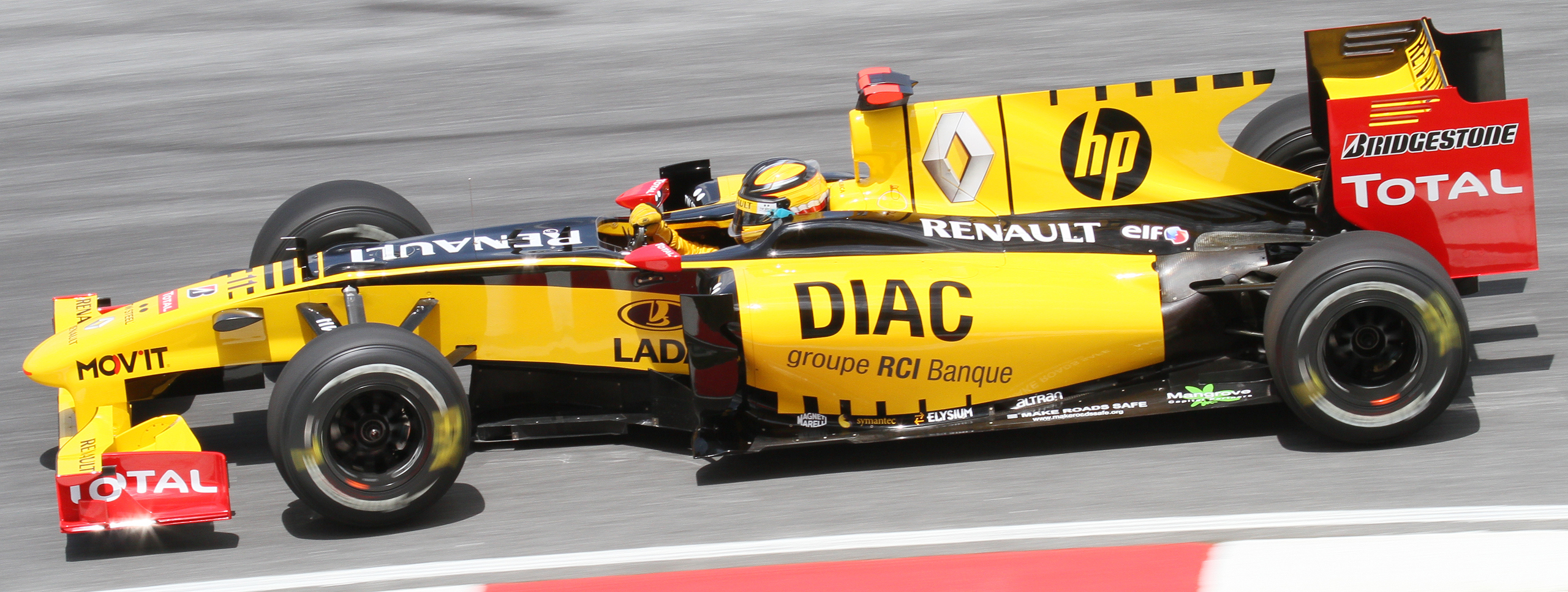 Formula One 2010 Rd.3 Malaysian GP: Robert Kubica (Renault) during Friday 2nd Free Practice session.